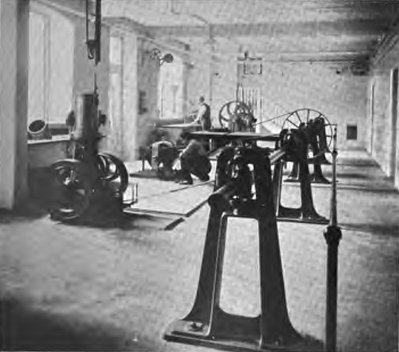 Black-and-white photograph of the Machine Room of Johnston Laboratories at the University of Liverpool, Liverpool, England, in the United Kingdom. This photograph dates from the formal opening of the laboratories in 1903. "A large room has been fitted in the Thompson Yates laboratories with apparatus for the use of the various research departments. Shafting running the length of the room is driven by a 10 horse-power motor, and from the shaft is driven an hydraulic press giving a total pressure of 200 tons, a high-pressure filtering apparatus, and gas liquefier, and a powerful centrifuge. From a smaller motor and shafting is driven a large centrifuge, a vaccine mill, a bacterial mill and disintegrating apparatus. The shafting is so constructed that new apparatus can be added as occasion requires."